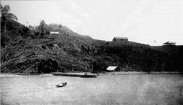 German Government-Station Kieta at the Island Bougainville, before 1909.